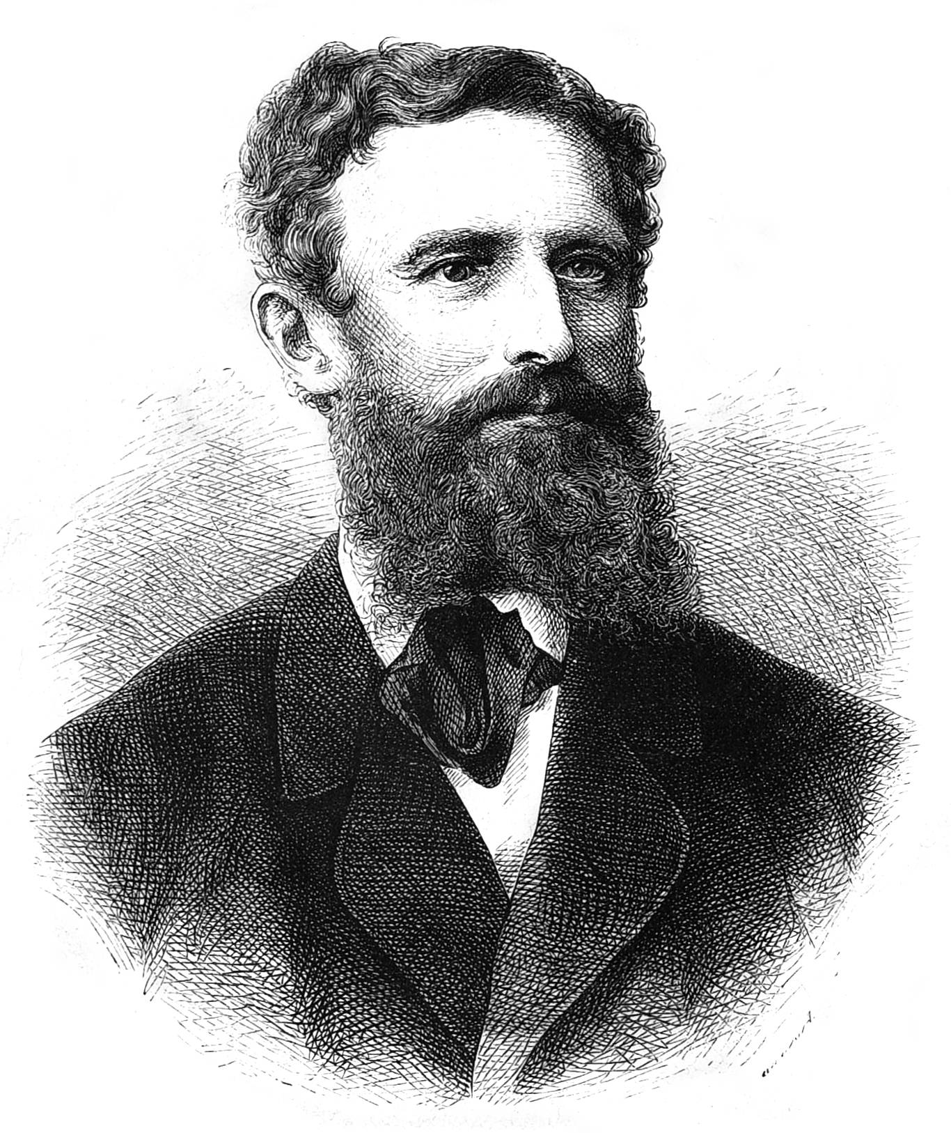 caption: "Gustav von Meyern-Hohenberg. Nach einer Photographie auf Holz gezeichnet von Adolf Neumann."